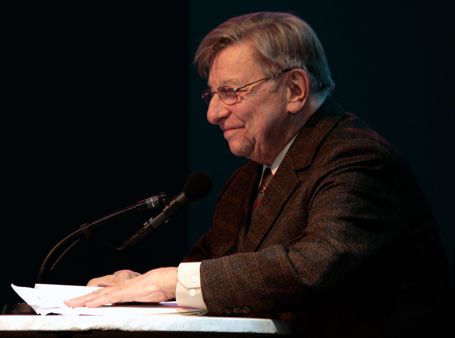 Journalist and author Hugo Portisch reading from 'Die Olive & wir' (literary evening "Rund um die Burg" 2009 near the Burgtheater in Vienna).